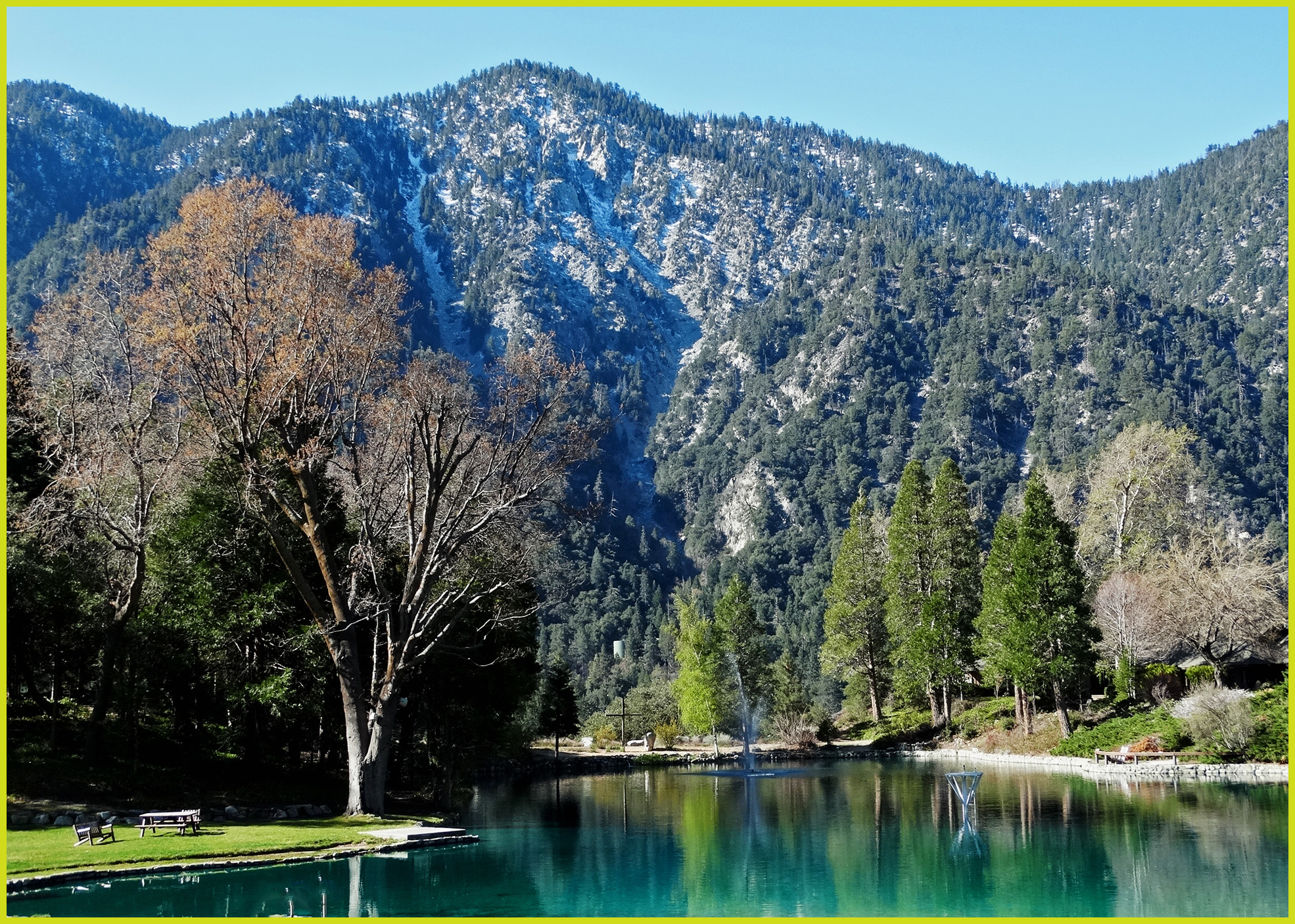 This pond is at Forest Home Christian Conference Center. You will note a cross at the far end of the pond. It is said that on that spot, as a young man, Billy Graham dedicated his life to preaching the Gospel.